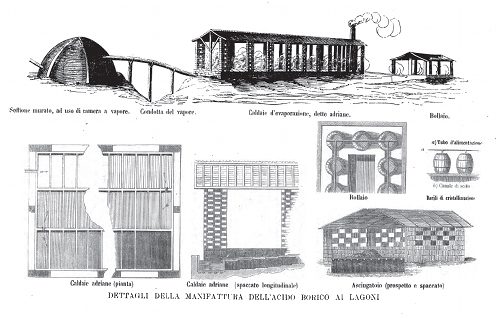 Lagoni for "boric acid" in Larderello tuscany Italy 1868